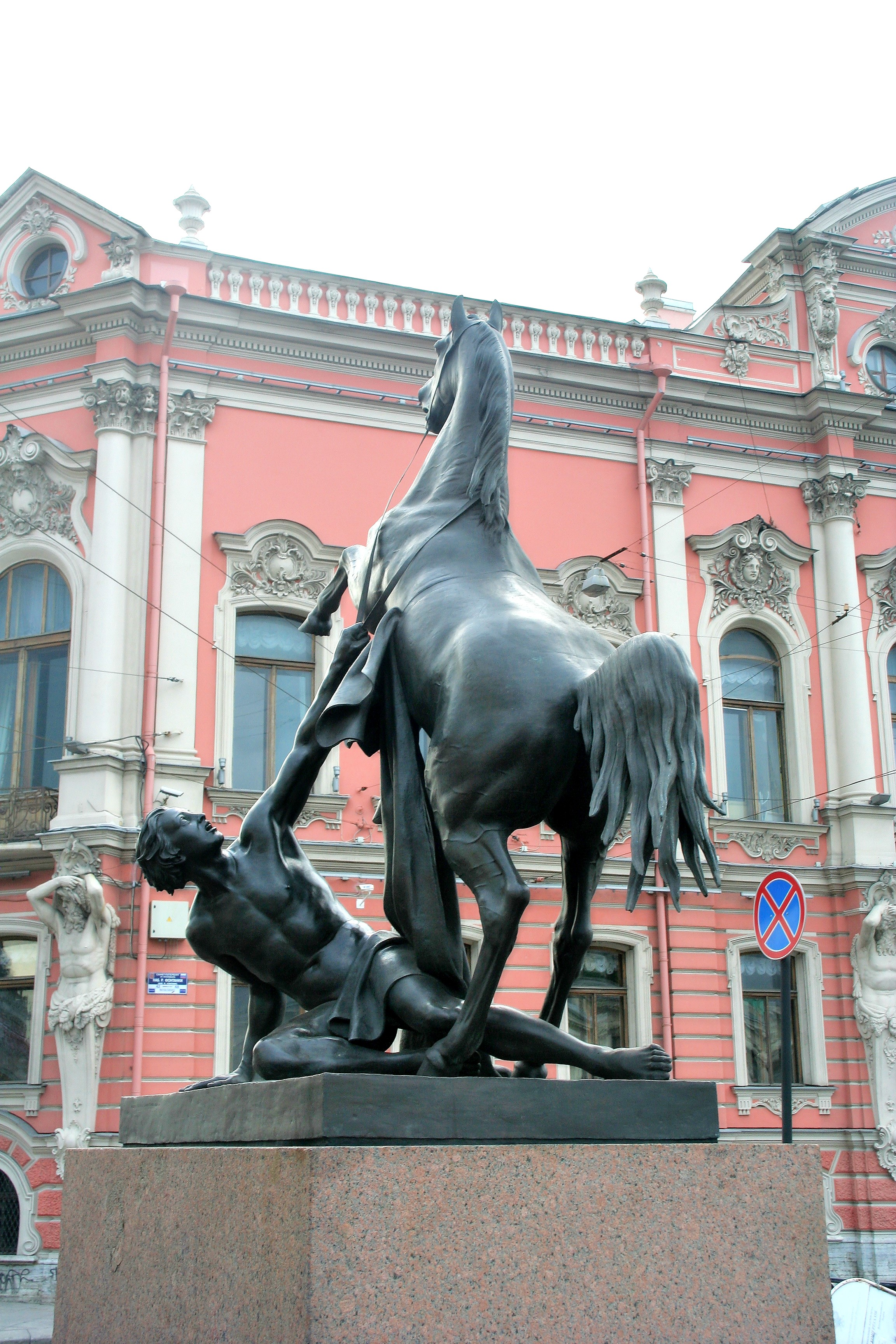 The 3rd group of Anichkov Bridge, Saint-Petersburg. A horse tamer on the Anichkov Bridge, designed by Peter Clodt von Jürgensburg, near the Beloselsky-Belozersky Palace.